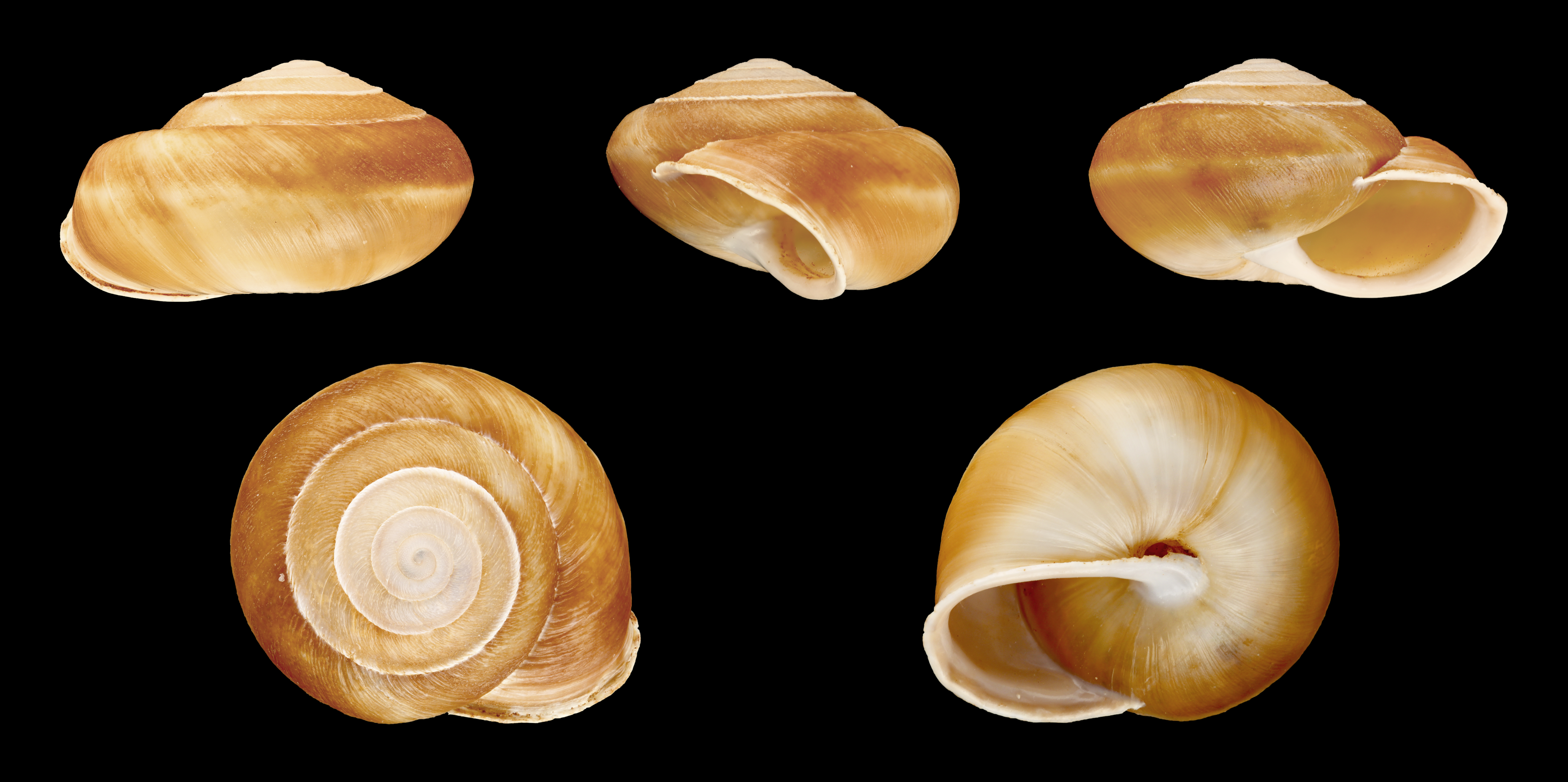 Diameter 2.4 cm; Collected between La Oliva and Lajares, Fuerteventura, Canary Islands, Spain 28°38′35.48″N 13°56′42.92″W / 28.6431889°N 13.9452556°W; Shell of own collection, therefore not geocoded.